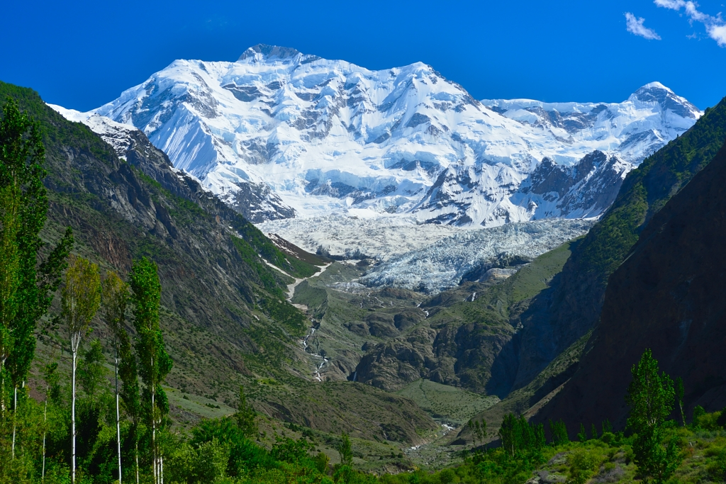 Rakaposhi from Ghulmet (KKH view point)